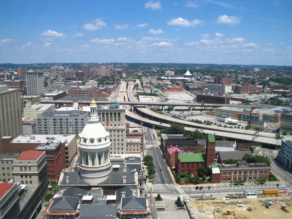 Cityscape of Baltimore